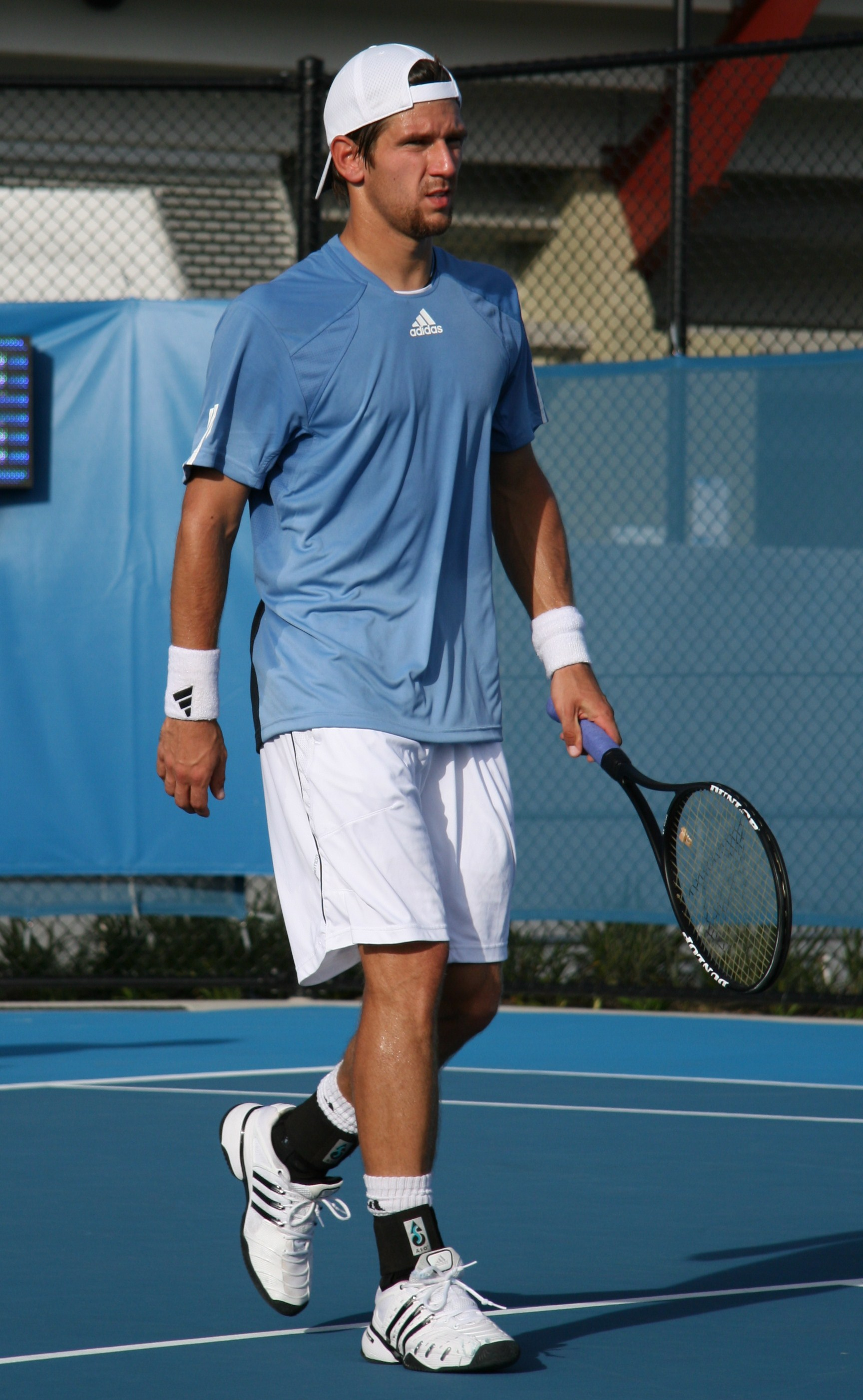 Jürgen Melzer at 2009 Brisbane International, Brisbane, Australia.